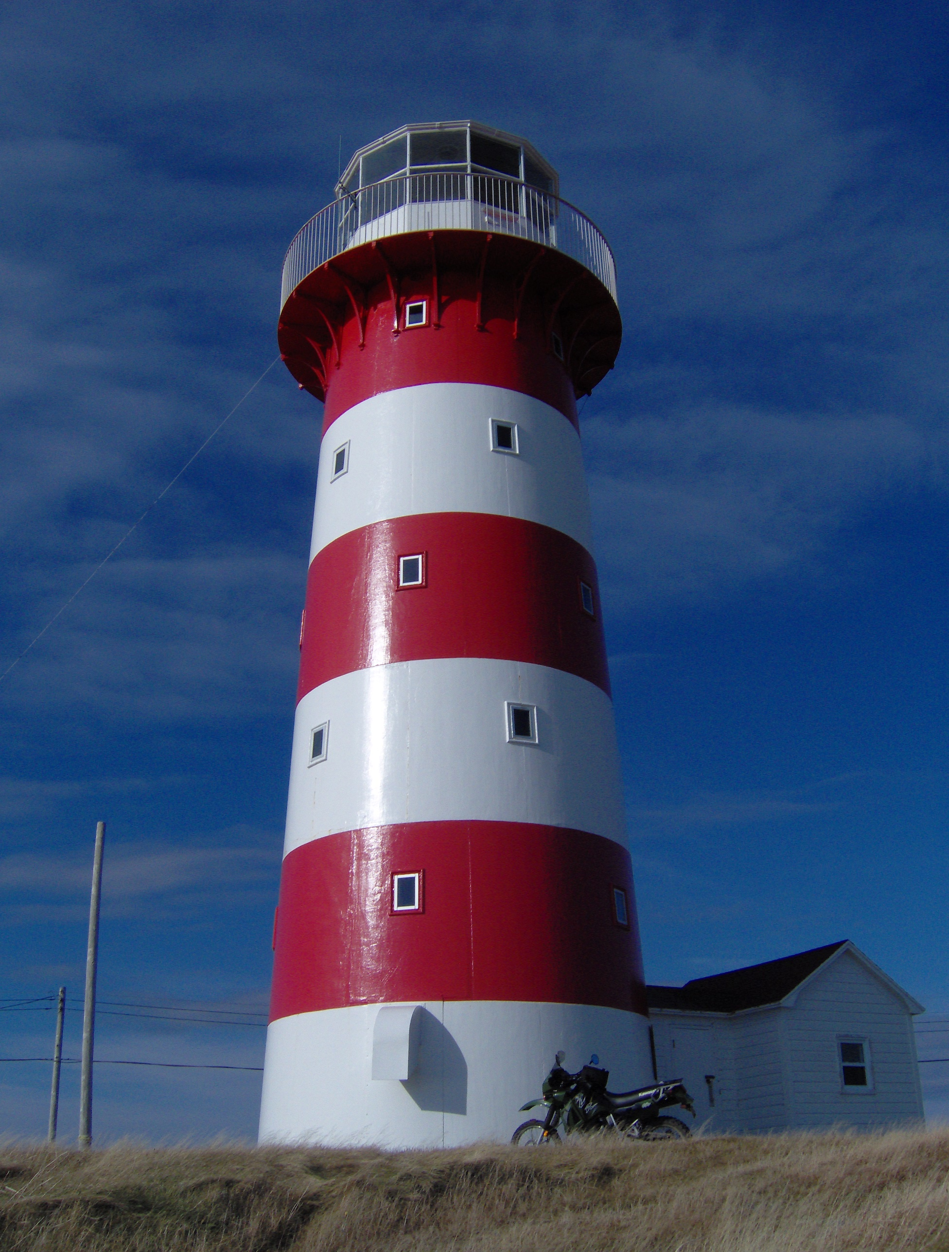 Cape Pine Lighthouse National Historic Site of Canada